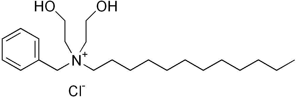 Chemical structure of Benzoxonium_chloride.